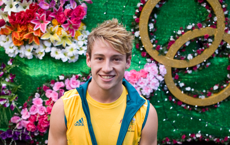 Matthew Mitcham - Australian Olympic 2008 gold medalist in diving, photo taken at Mardi Gras, Sydney, 2009